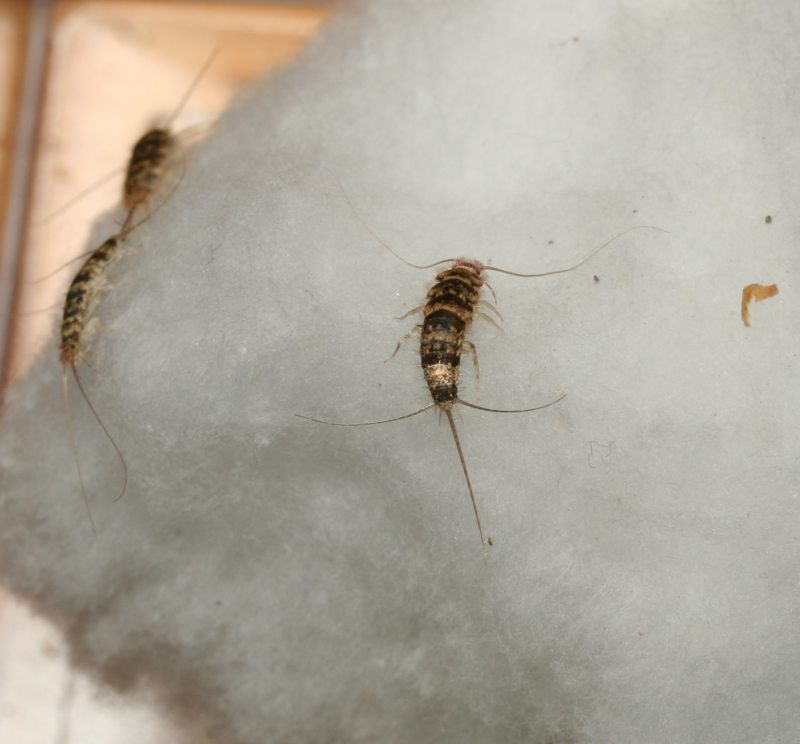 Ofenfischchen (Thermobia domestica)